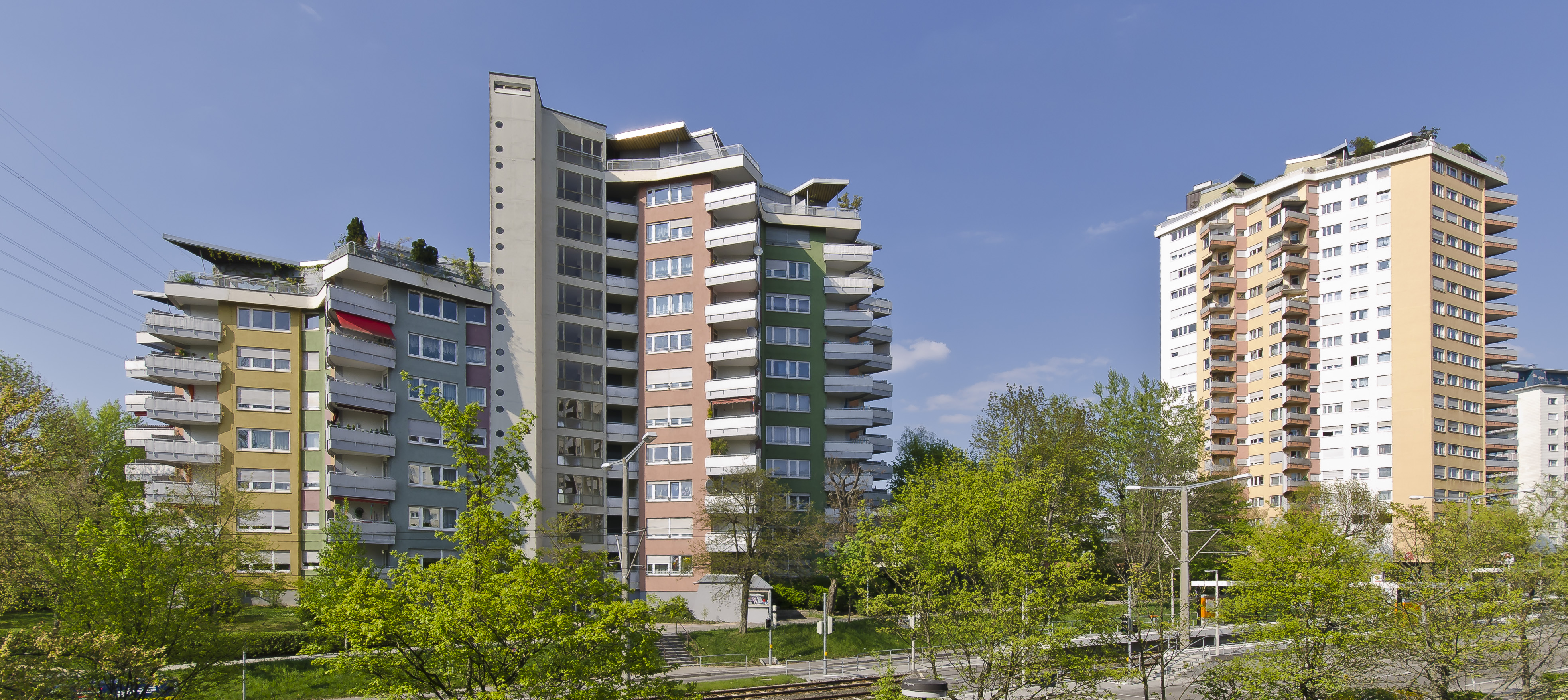 Apartment buildings Romeo and Juliet by Hans Scharoun, Stuttgart-Rot, Germany